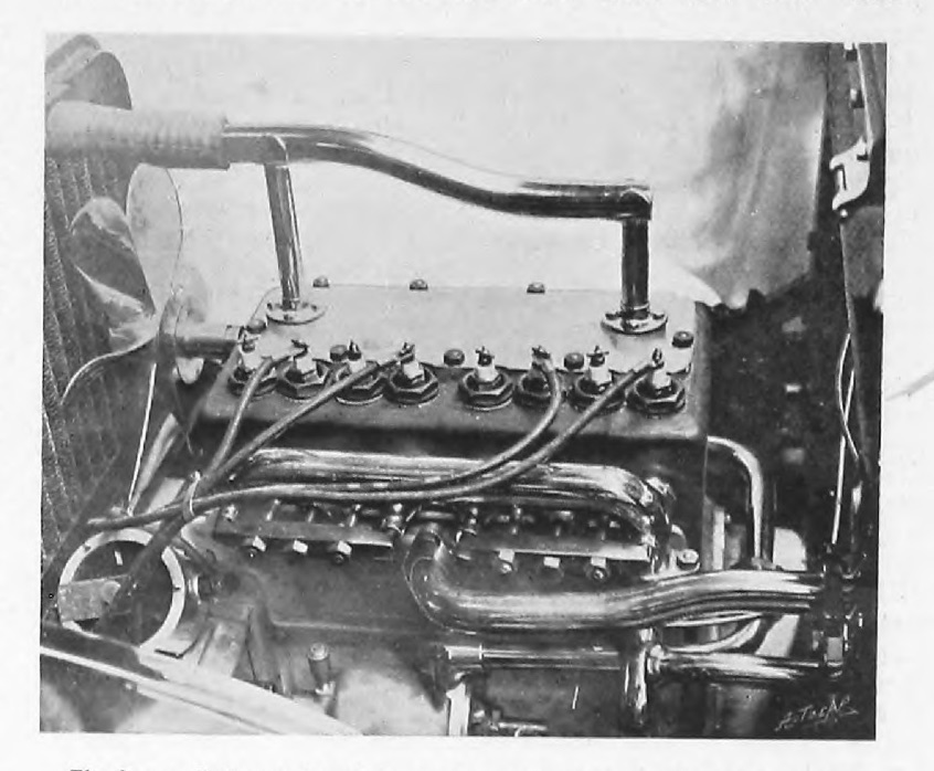 1905 Rover 10-12hp 4-cylinder engine "the four-cylinder engine of the 10-12 hp Rover car. Note the duplicate ignition plugs"